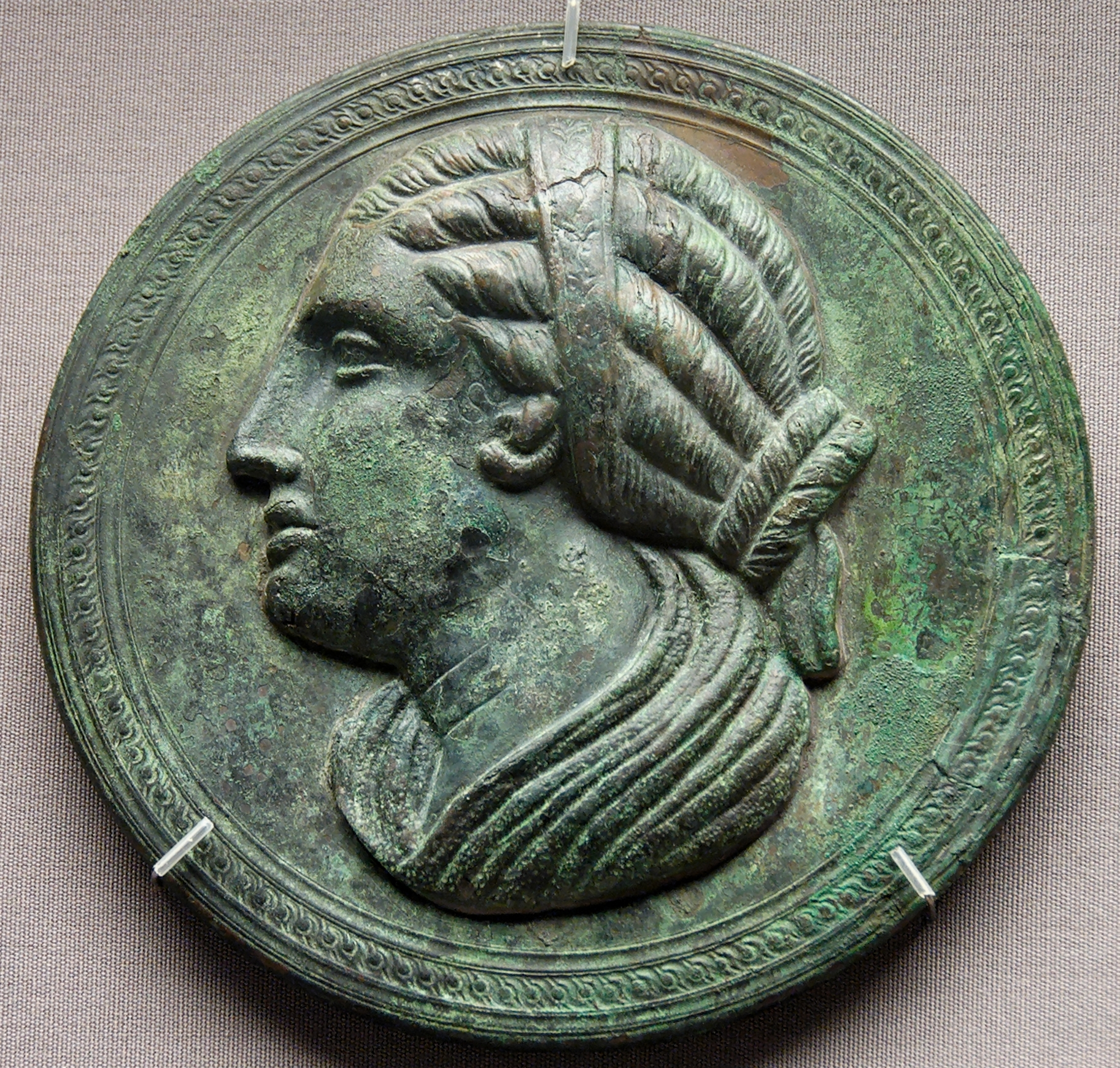 Head of a woman with Hellenistic hairstyle and lion-earrings, mirror cover. Said from Polyrrhenia, Crete.